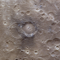 Neruda crater on Mercury. Cropped from larger image EW0264237830G.